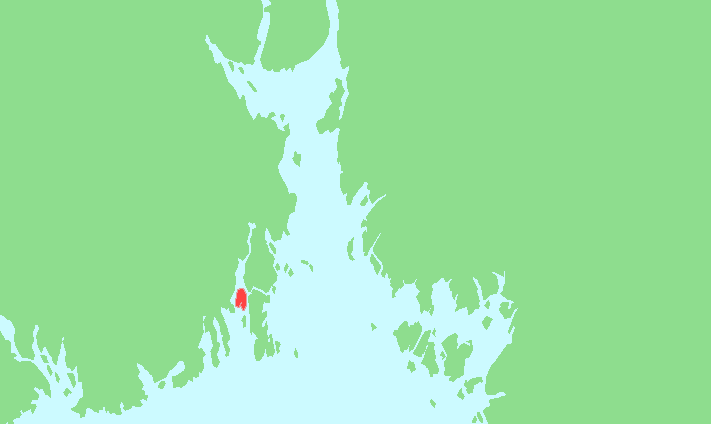 Locator map of Veierland, Vestfold, Norway